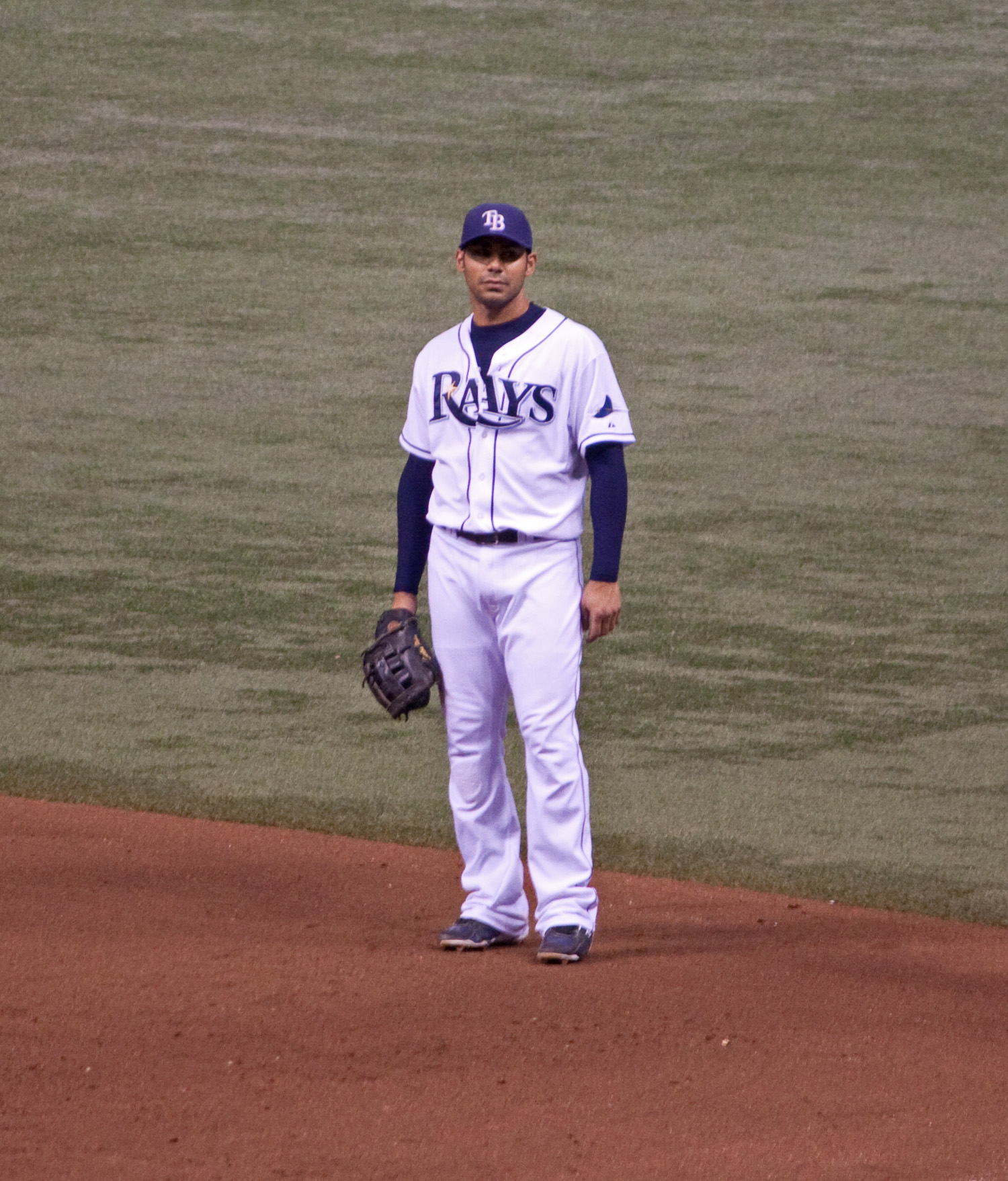 Carlos Peña of the Tampa Bay Rays during a game against the Toronto Blue Jays at Tropicana Field in St. Petersburg, Florida on August 31, 2010.